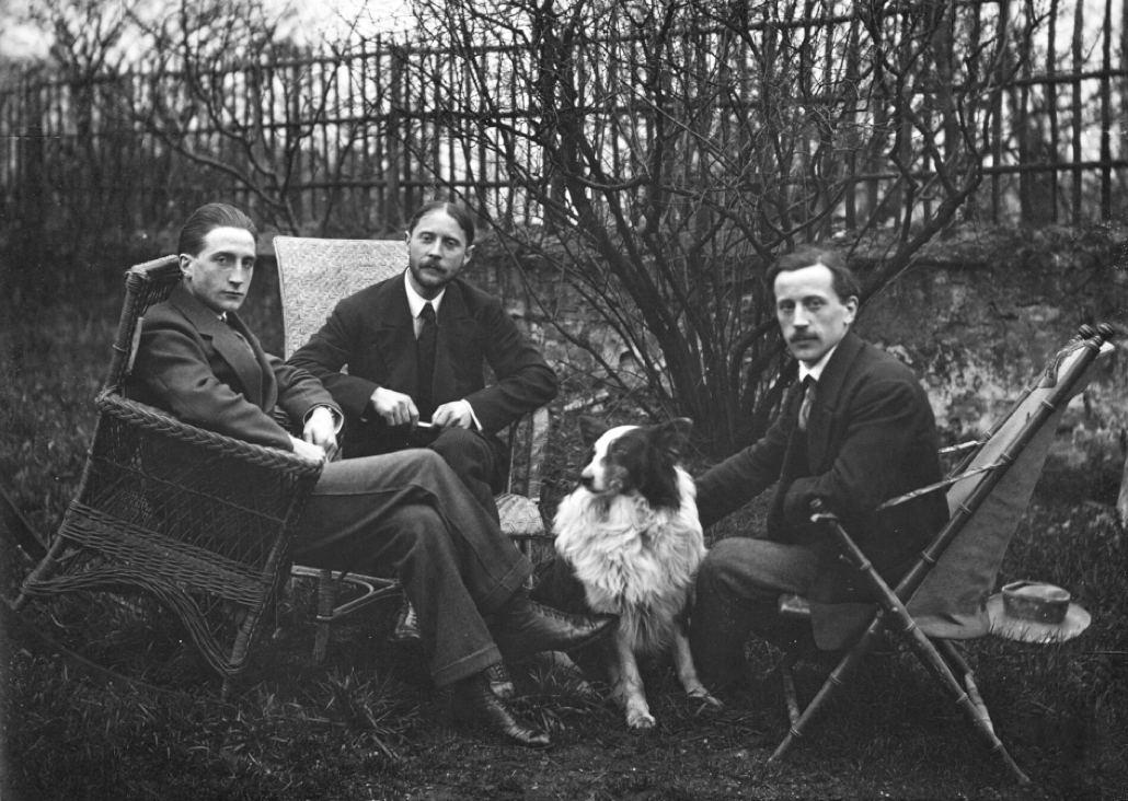 Marcel Duchamp, Jacques Villon, Raymond Duchamp-Villon, and Villon's dog Pipe in the garden of Villon's studio, Puteaux, France, ca. 1913 / unidentified photographer. Walt Kuhn, Kuhn family papers, and Armory Show records, Archives of American Art, Smithsonian Institution. (Armory Show promotional image)